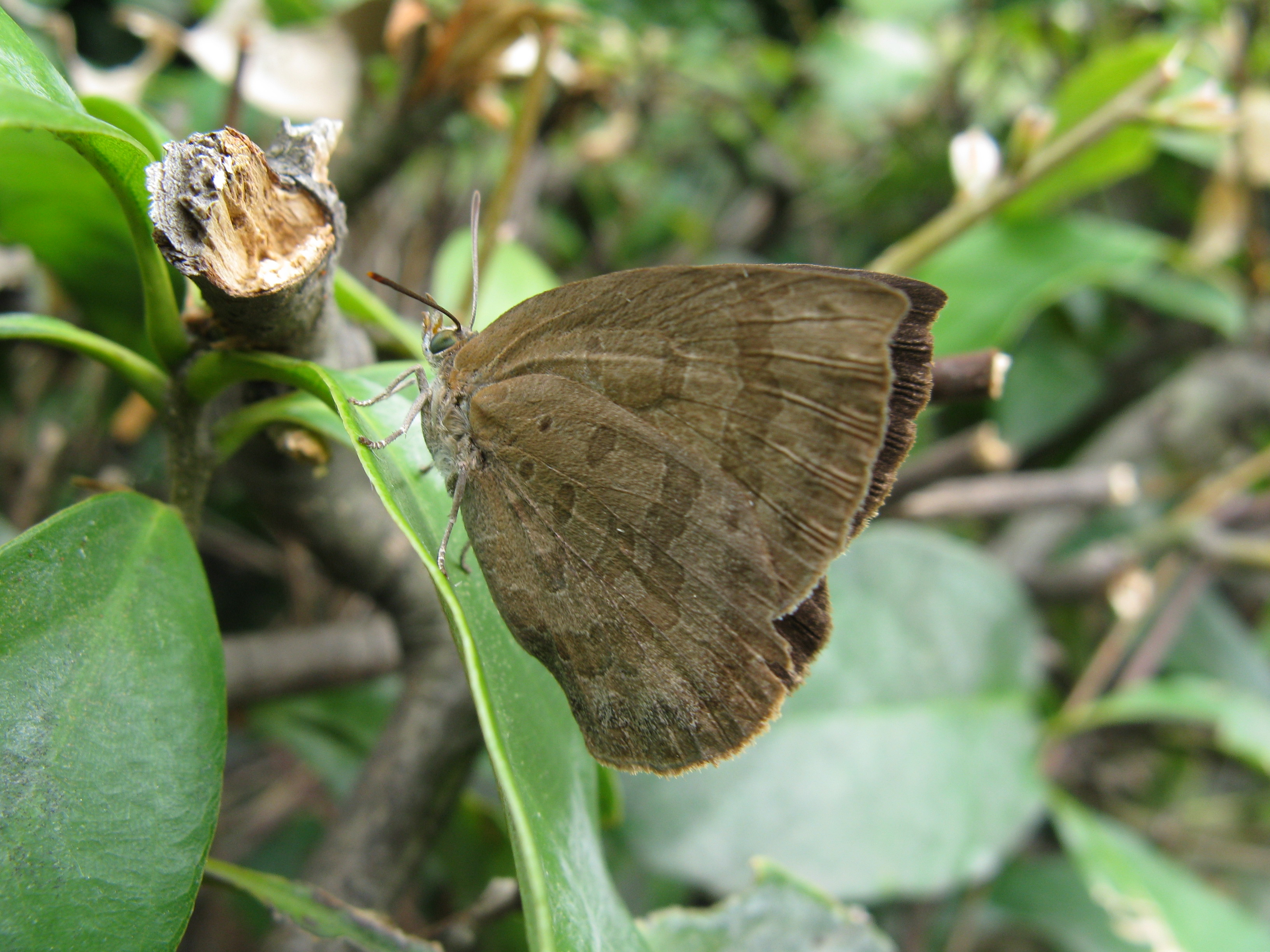 Scientific name Narathura japonica